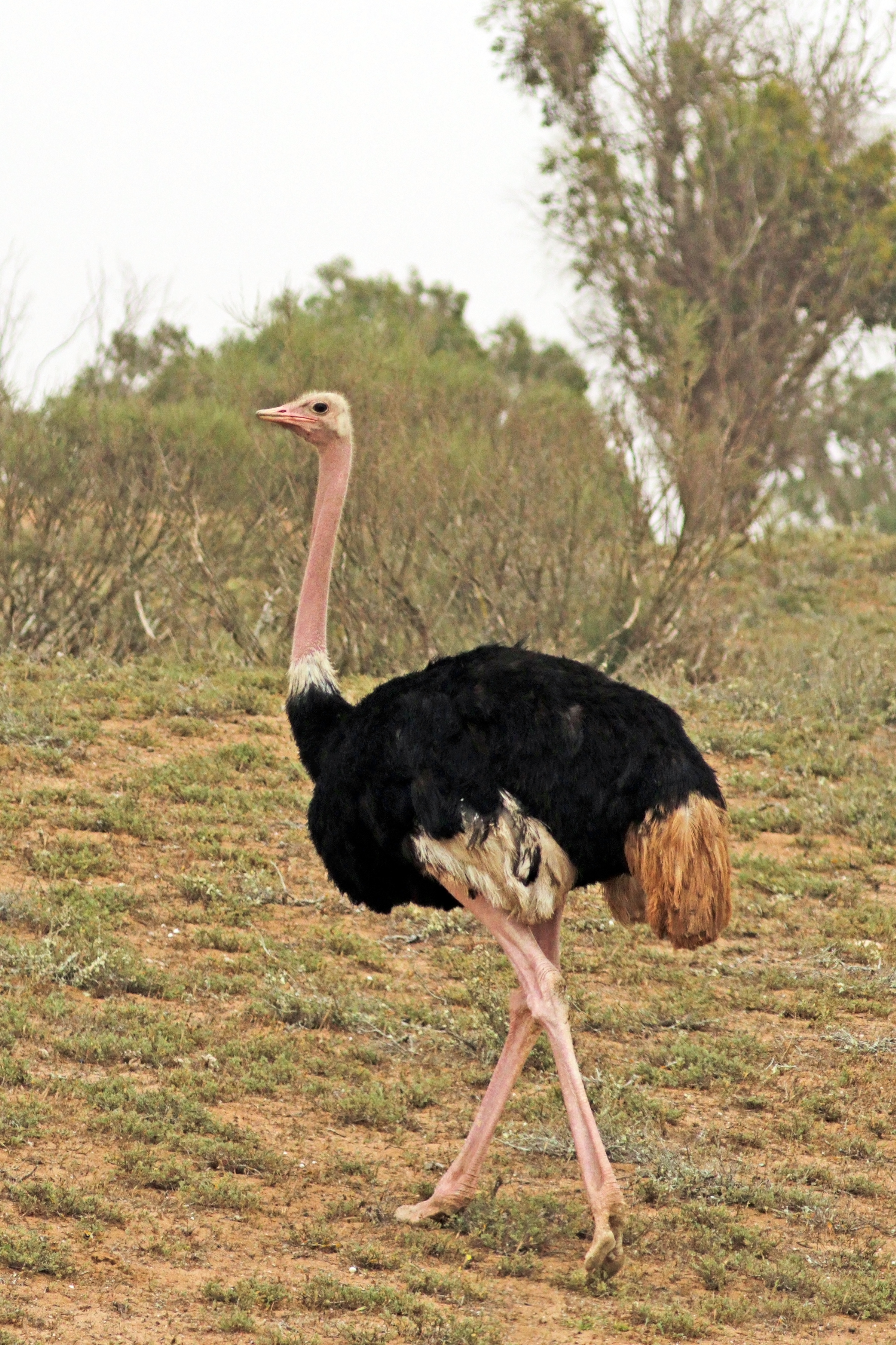 North African ostrich (Struthio camelus camelus) male, Souss-Massa National Park, Morocco